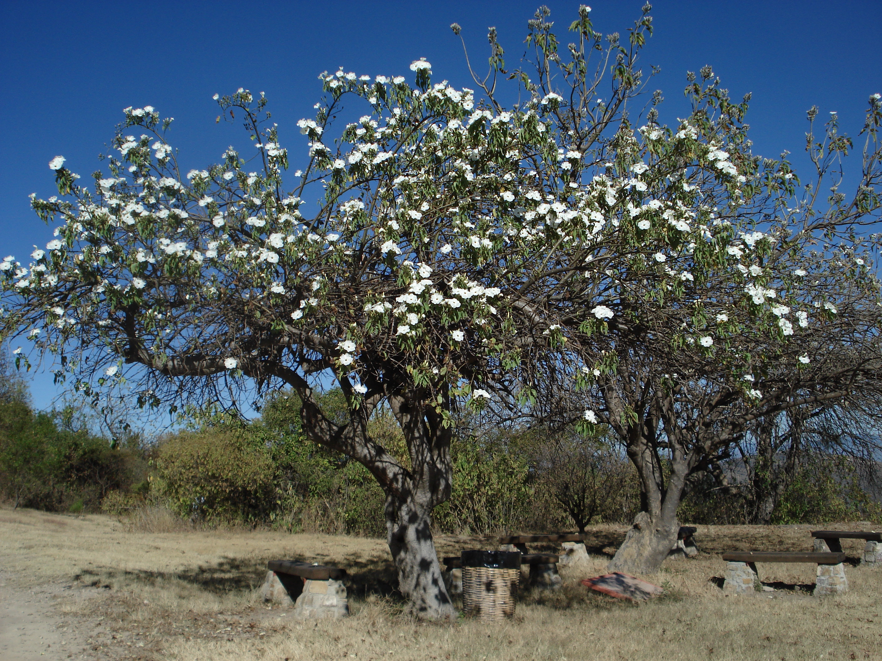 Ipomoea arborescens var. pachylutea on "Monte Alban" in MEXICO